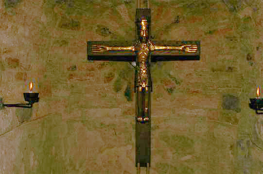 Åbykorset, also known as the golden crucifix from ca. 1050 is Denmark's oldest crucifix and located at the National Museum, but a copy found among others in encrypted during the Our Lady Church in Aarhus, at this picture shows.